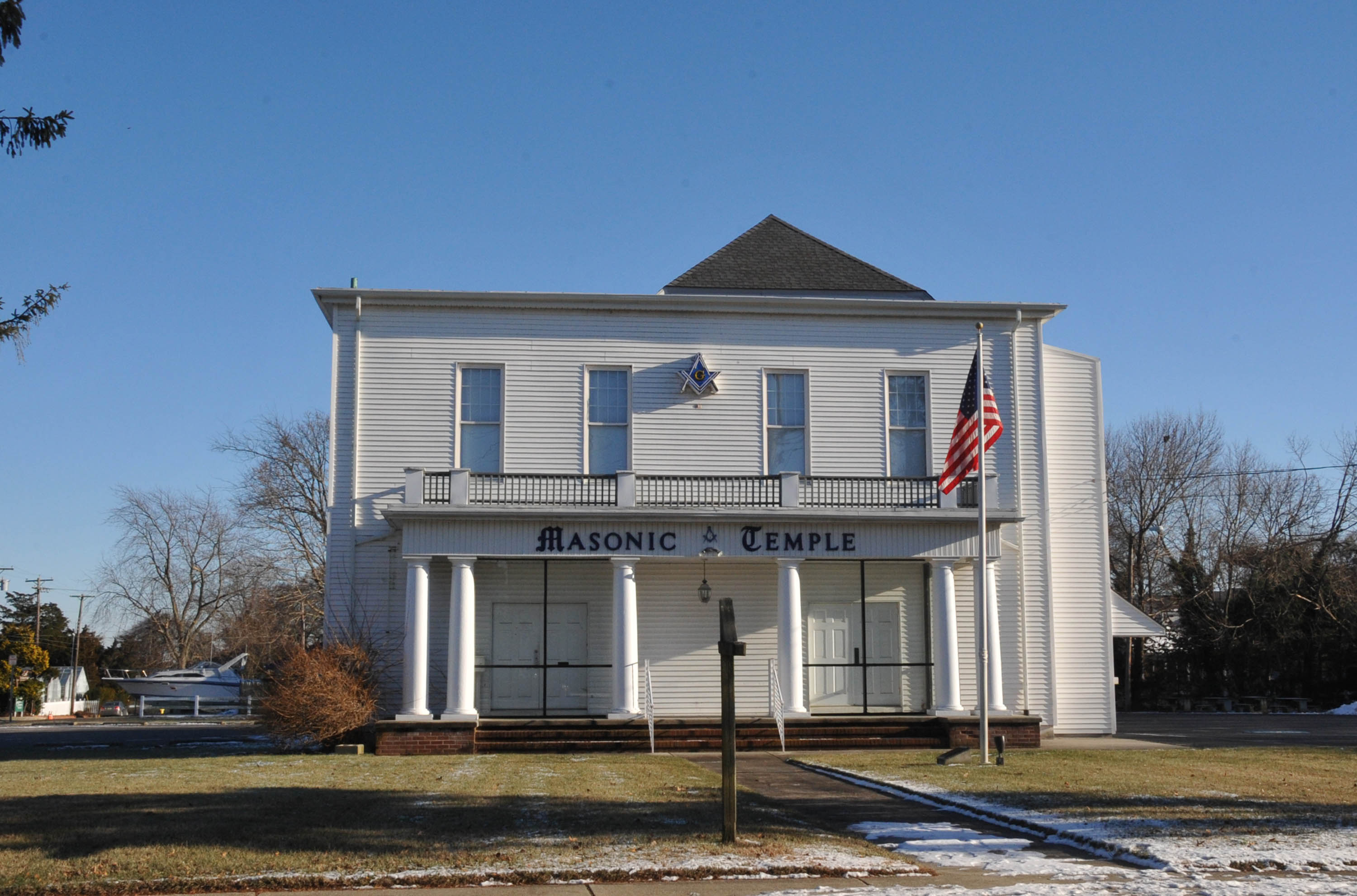 MASONIC TEMPLE ON SHORE ROAD